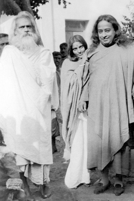 Paramahansa Yogananda (right), Anandamayi Ma (middle) and her husband Bholanath (left).